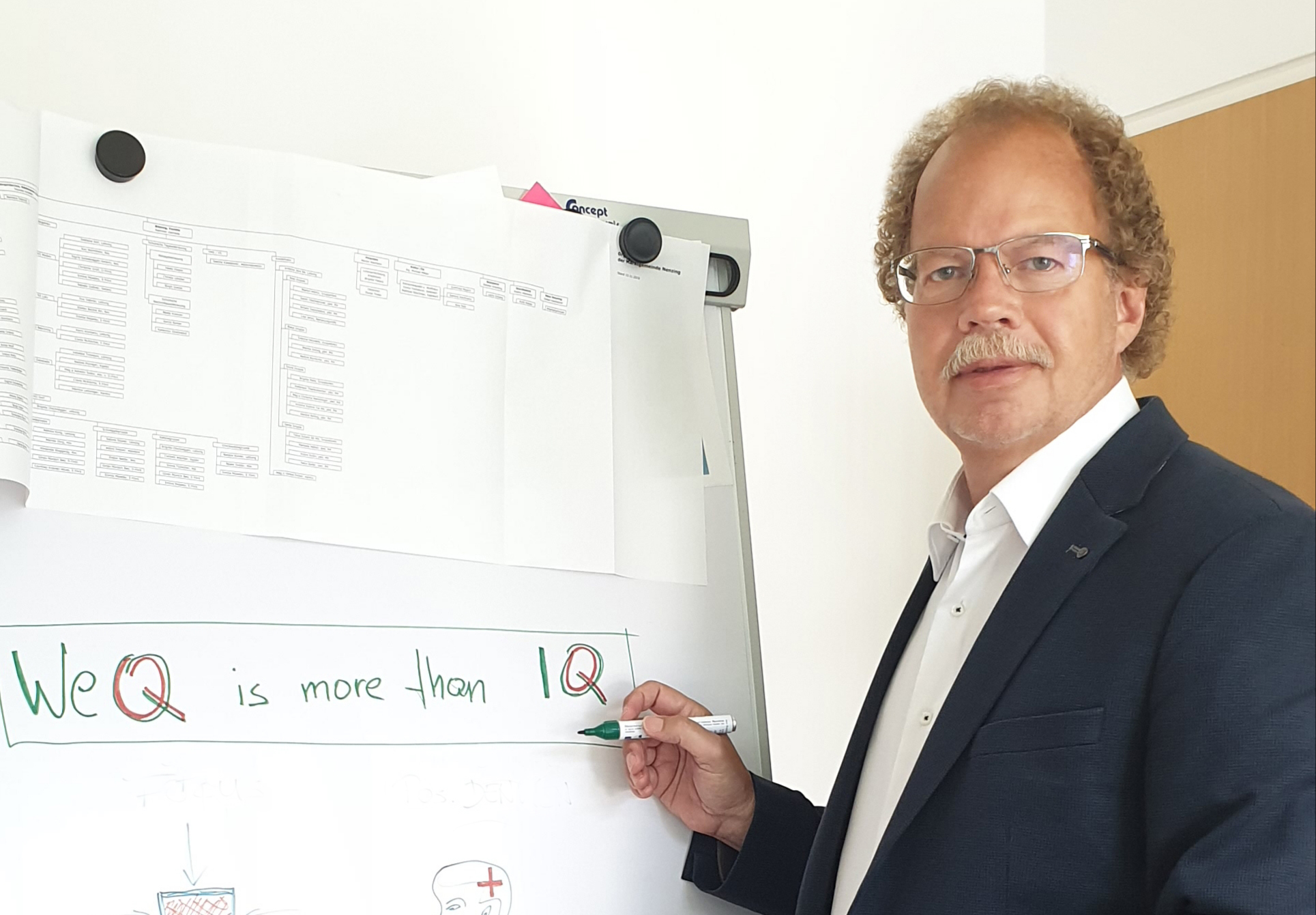 Florian Kasseroler (born March 22, 1960) is an Austrian politician (FPÖ) from the state of Vorarlberg. From 1999 to 2004, Kasseroler represented the Vorarlberg Freedom Party (FPOe) for one legislative term as a member of the Vorarlberg Parliament. Since 2003 he is full-time mayor of the market town Nenzing.